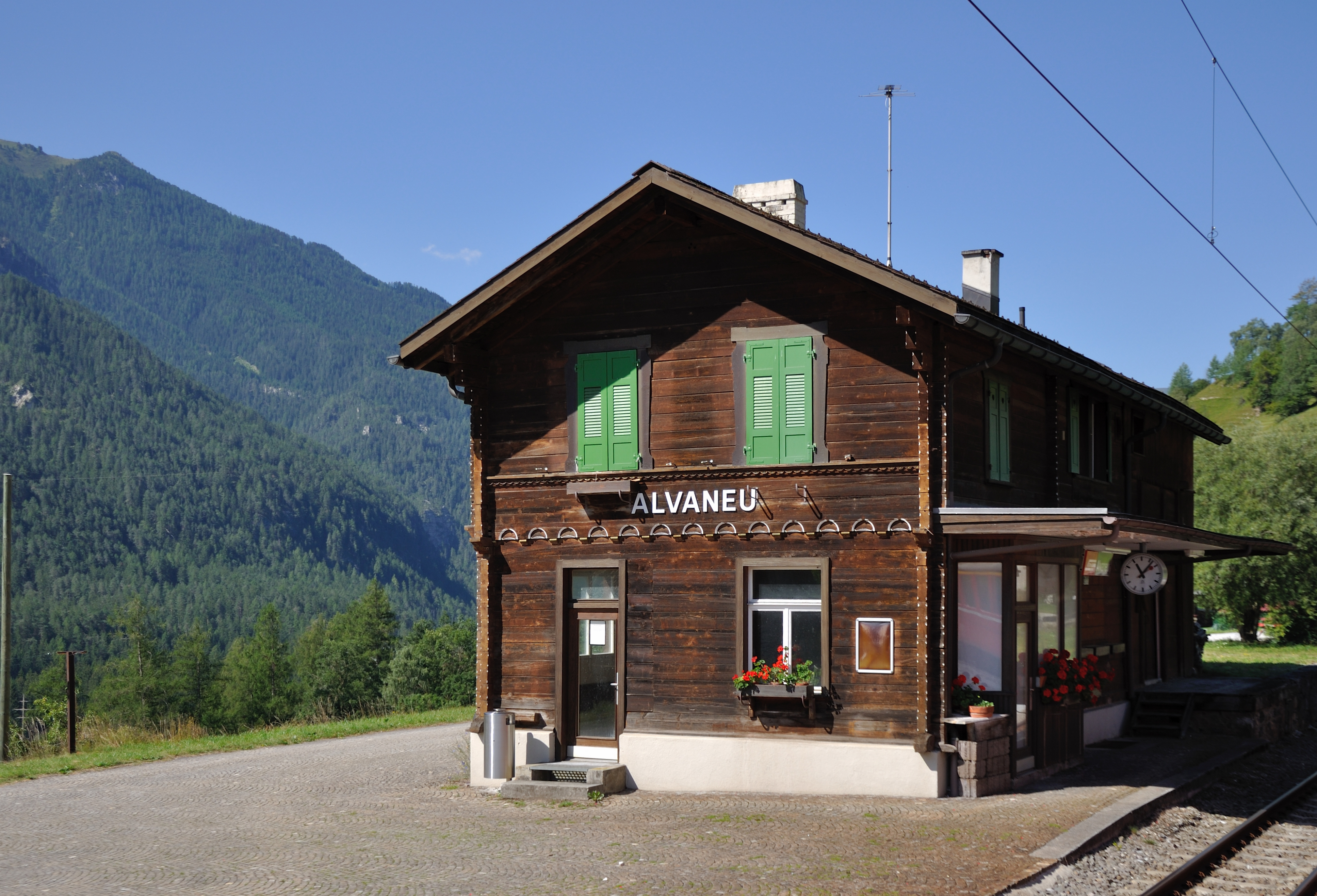 Switzerland, Graubünden, impressions on the Albula line of the Rhaetian Railways between Bergün and Thusis